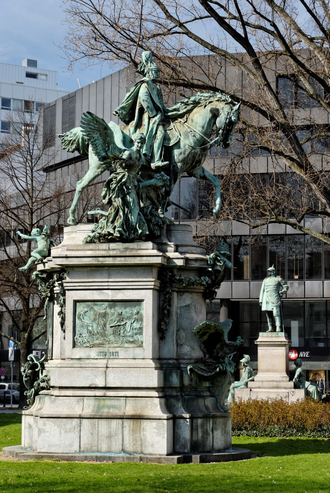 Kaiser-Wilhelm-Denkmal, Martin-Luther-Platz in Düsseldorf-Stadtmitte, Germany This is a photograph of an architectural monument.